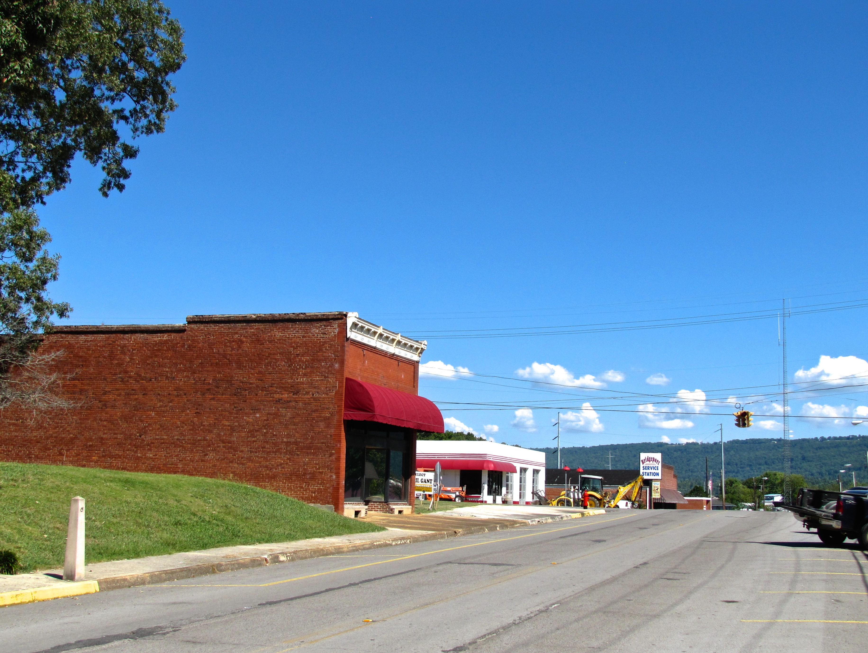 Buildings along Alabama Avenue in Bridgeport, Alabama, United States.